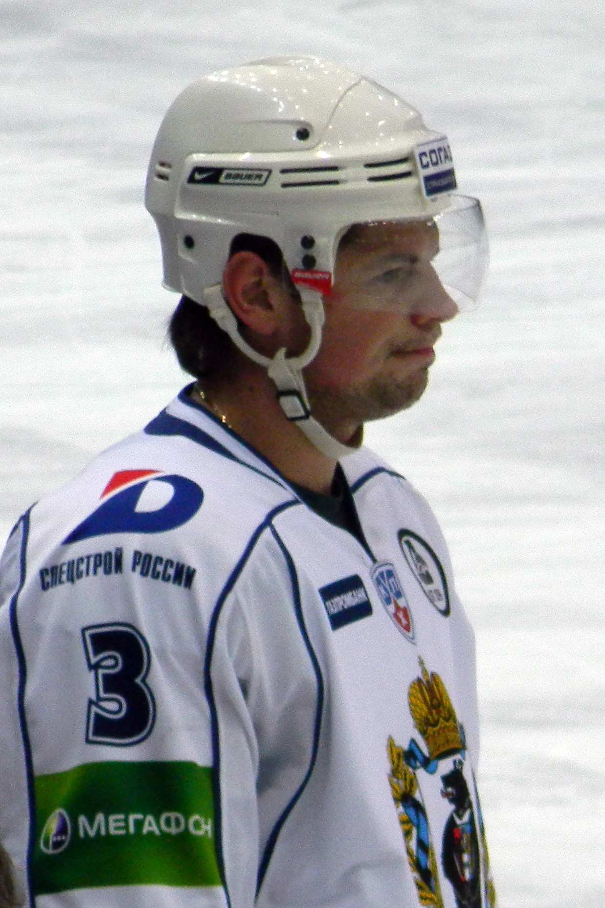 Denis Grot, an ice hockey player from Amur Khabarovsk